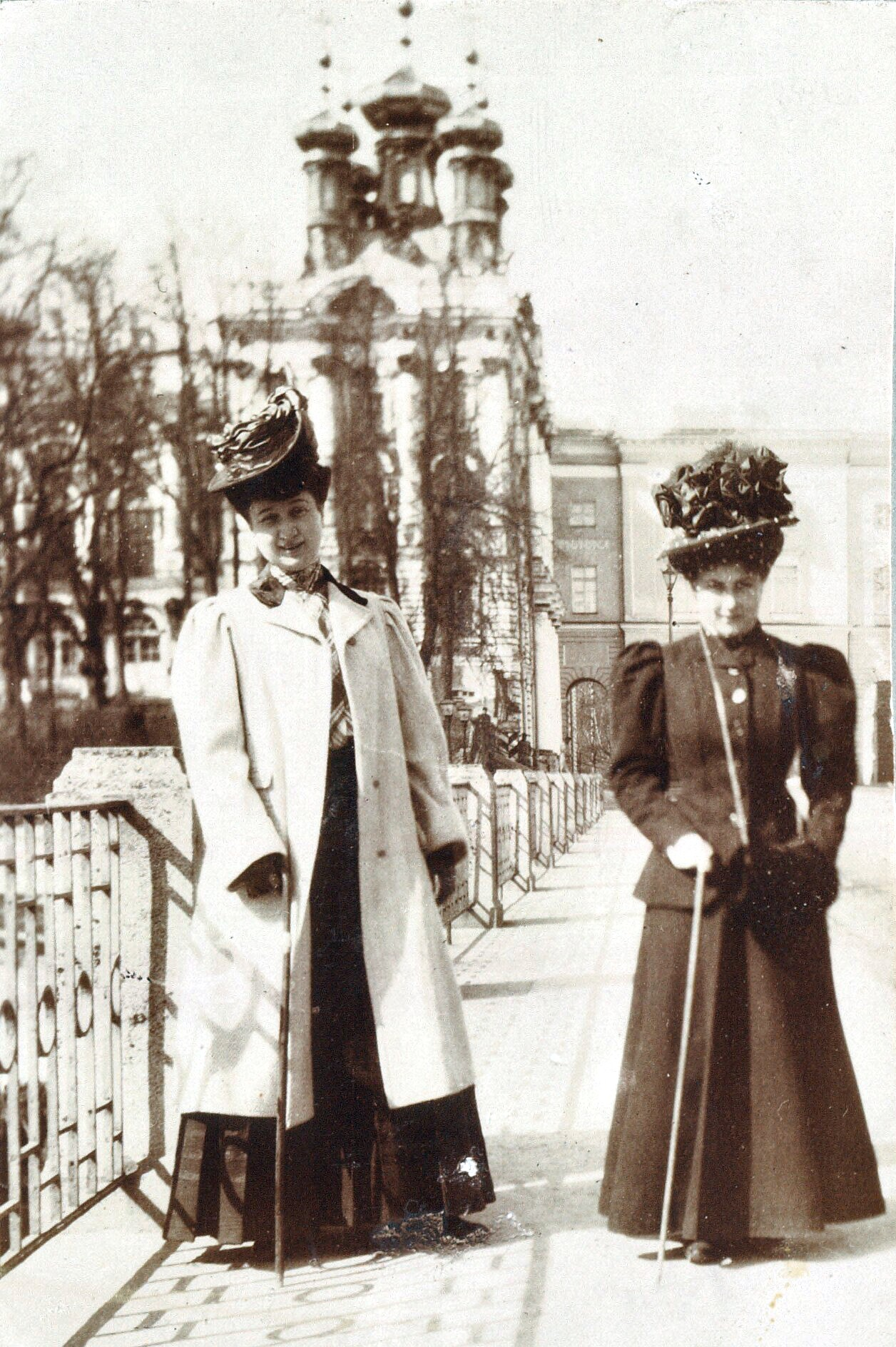 Tsarskoye Selo (Russia), Sisters - Anna Taneyev (Vyrubova) and Alexandra Taneyev (Pistohlkors) in front of the Catherine Palace.